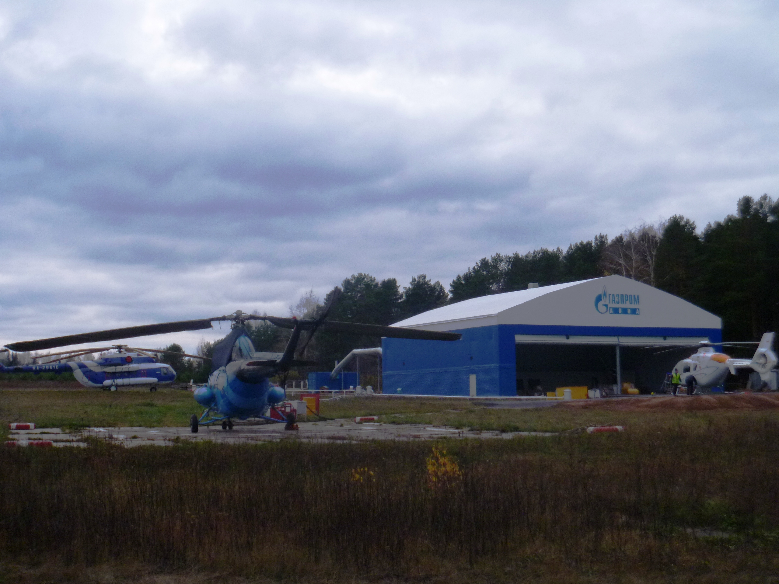 Perm region